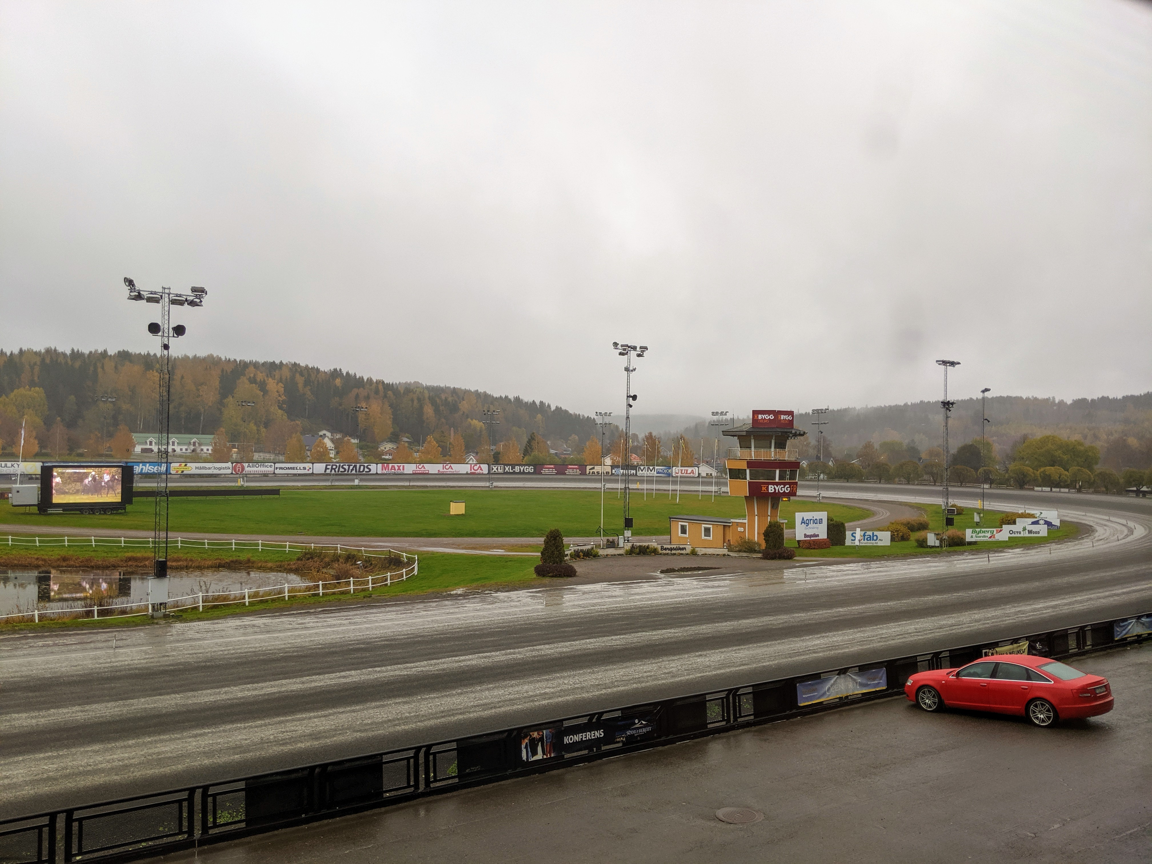 Bergsåkra racetrack, outside Sundsvall in October